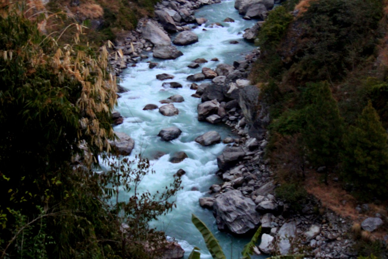 Trisuli River in Rasuwa